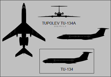 4-view silhouettes of the Tupolev Tu-134